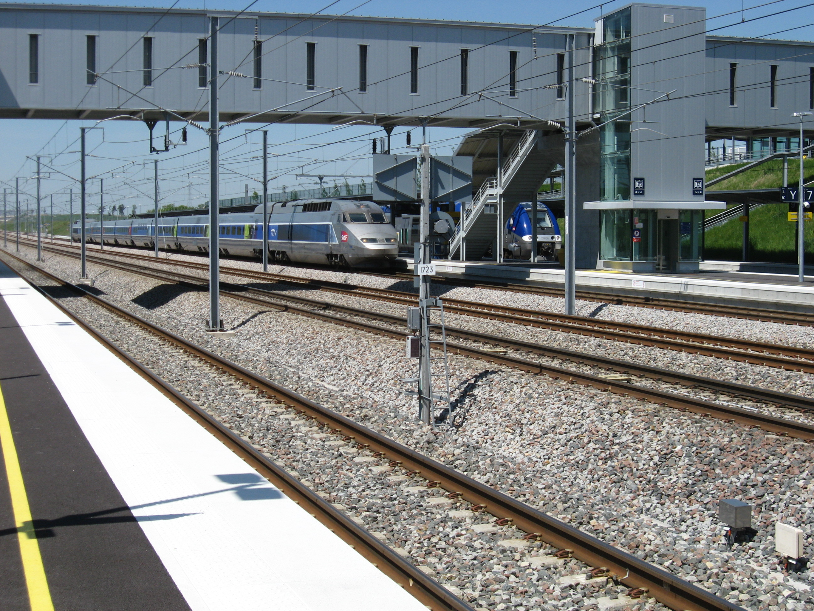 TGV unit 548 and TER electric unit 27696 in Champagne Ardenne TGV. The TGV is on a Lille Strasbourg 5402 service and the TER on a shuttle service to Reims (13:39)